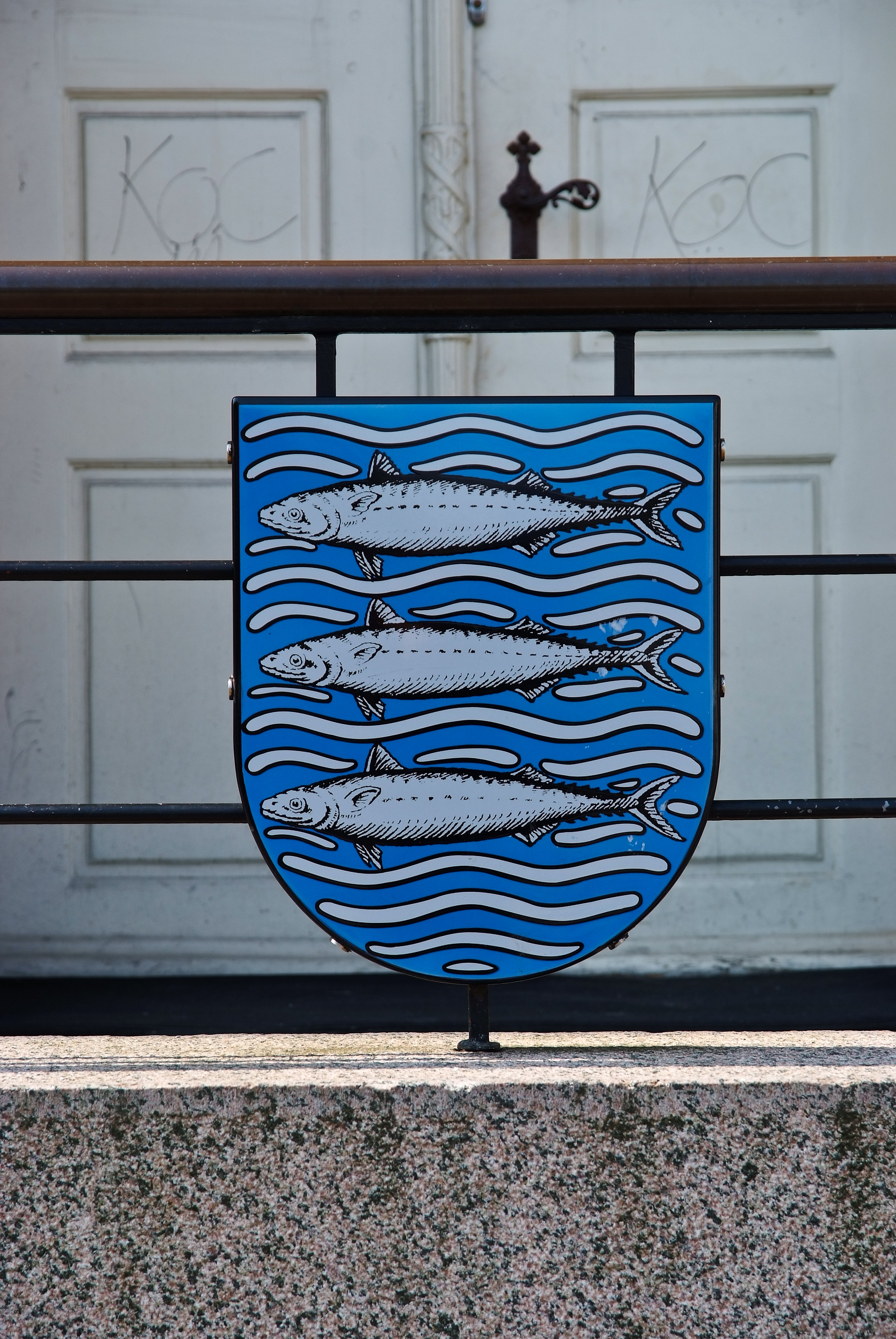 Coat of arms of Aabenraa, Denmark